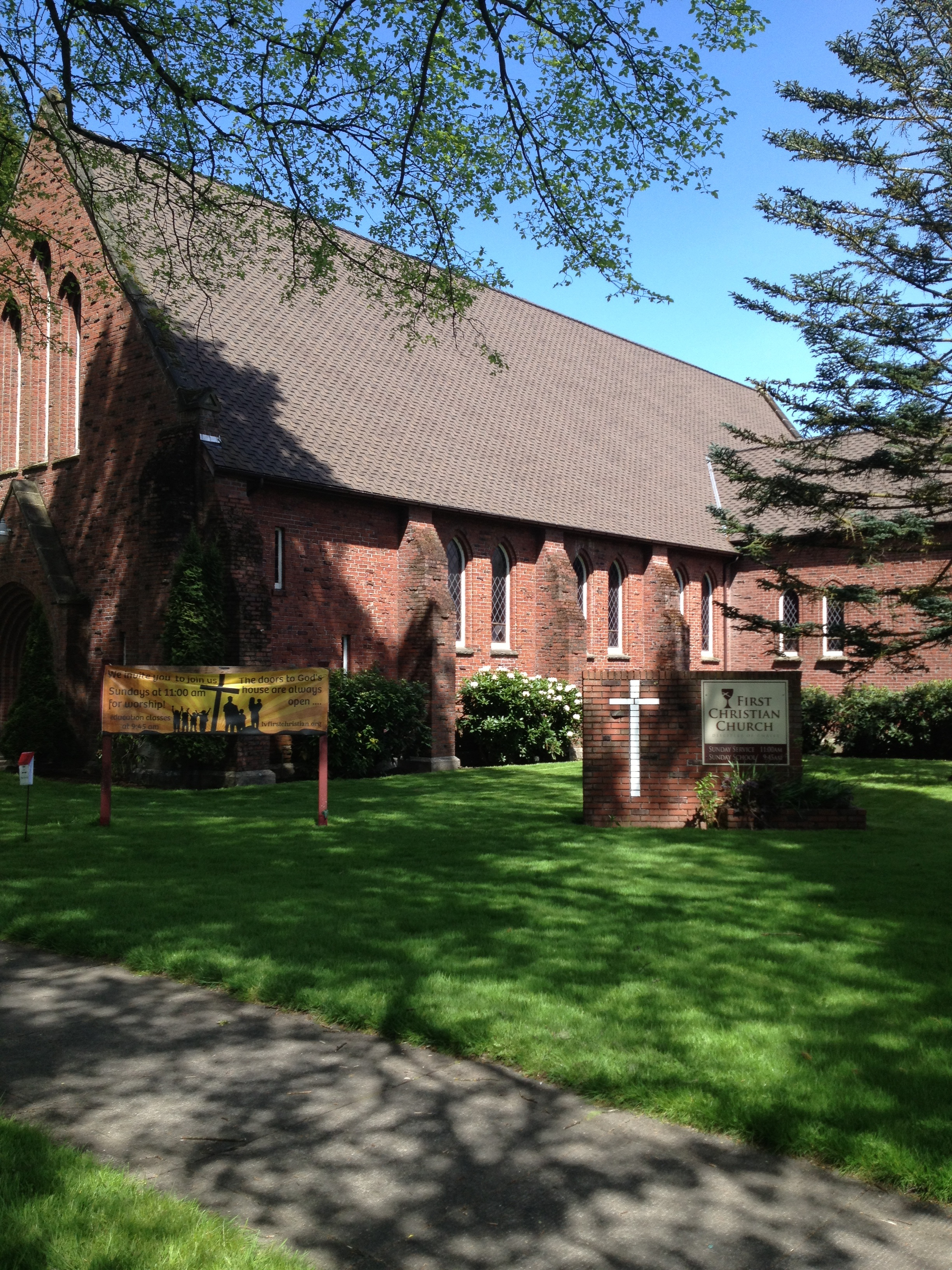 Another shot of First Christian Church, Longview, WA.